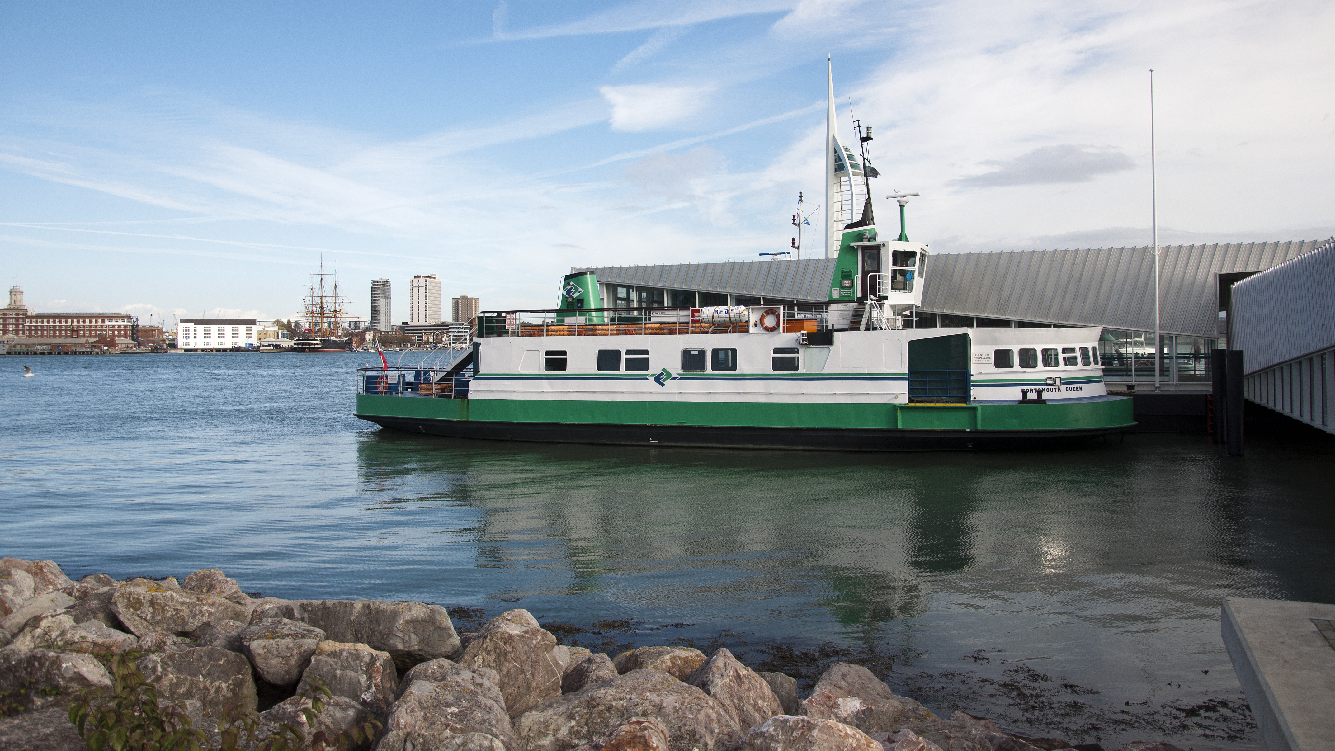 A Gosport ferry (Portsmouth Queen) in Gosport, Hampshire, England